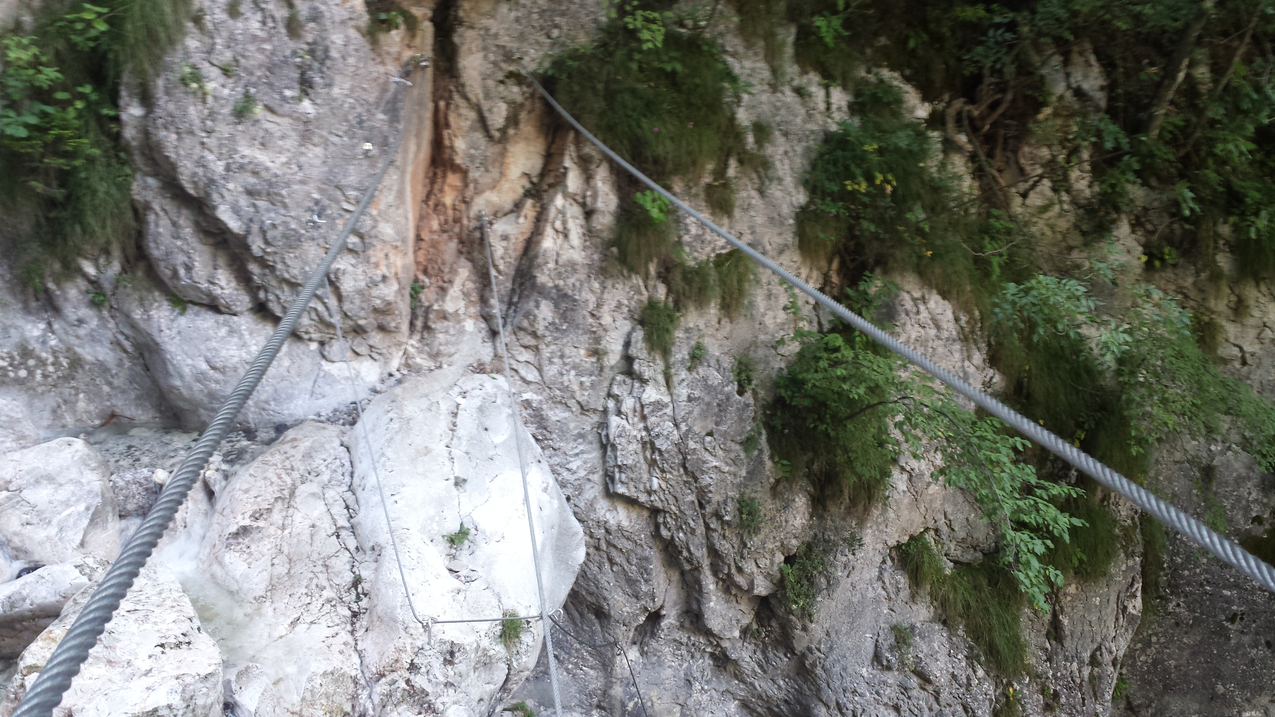 Ferata Hvadnik Slovenija